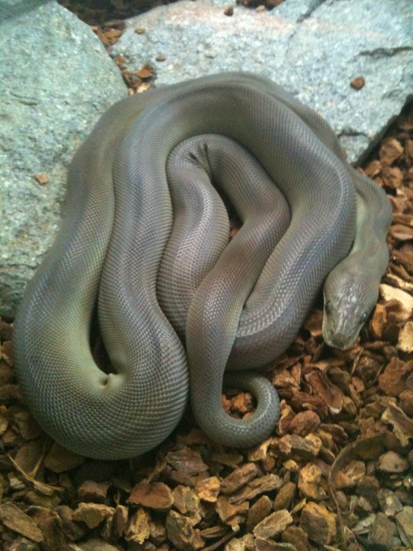 Olive Python, Liasis olivaceous. This is my son's female snake, named "Gracie". She is originally from the Northern Territory. At the time the image was taken, on 19 March 2010, the snake was five months old.